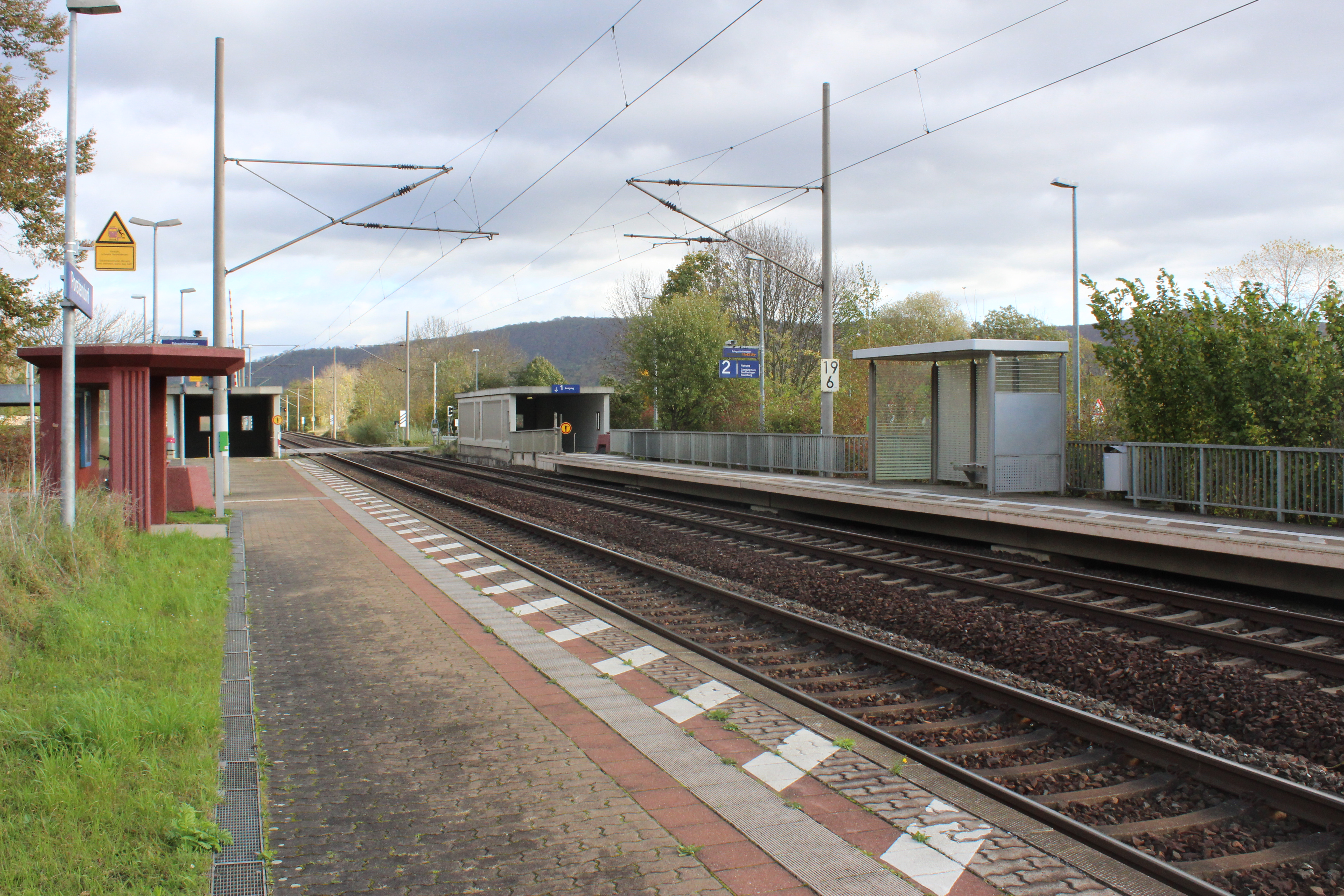 train station Porstendorf, platforms